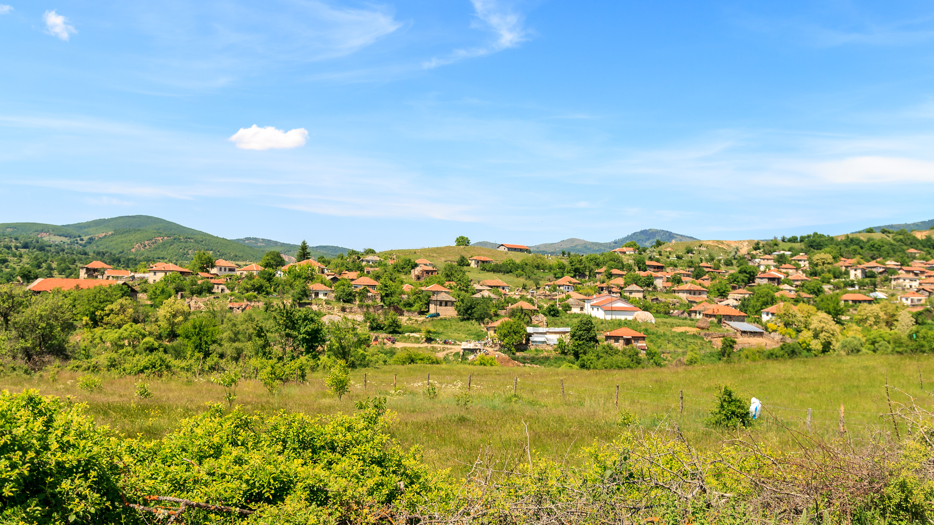 Panoramic photo of the village Vitolište